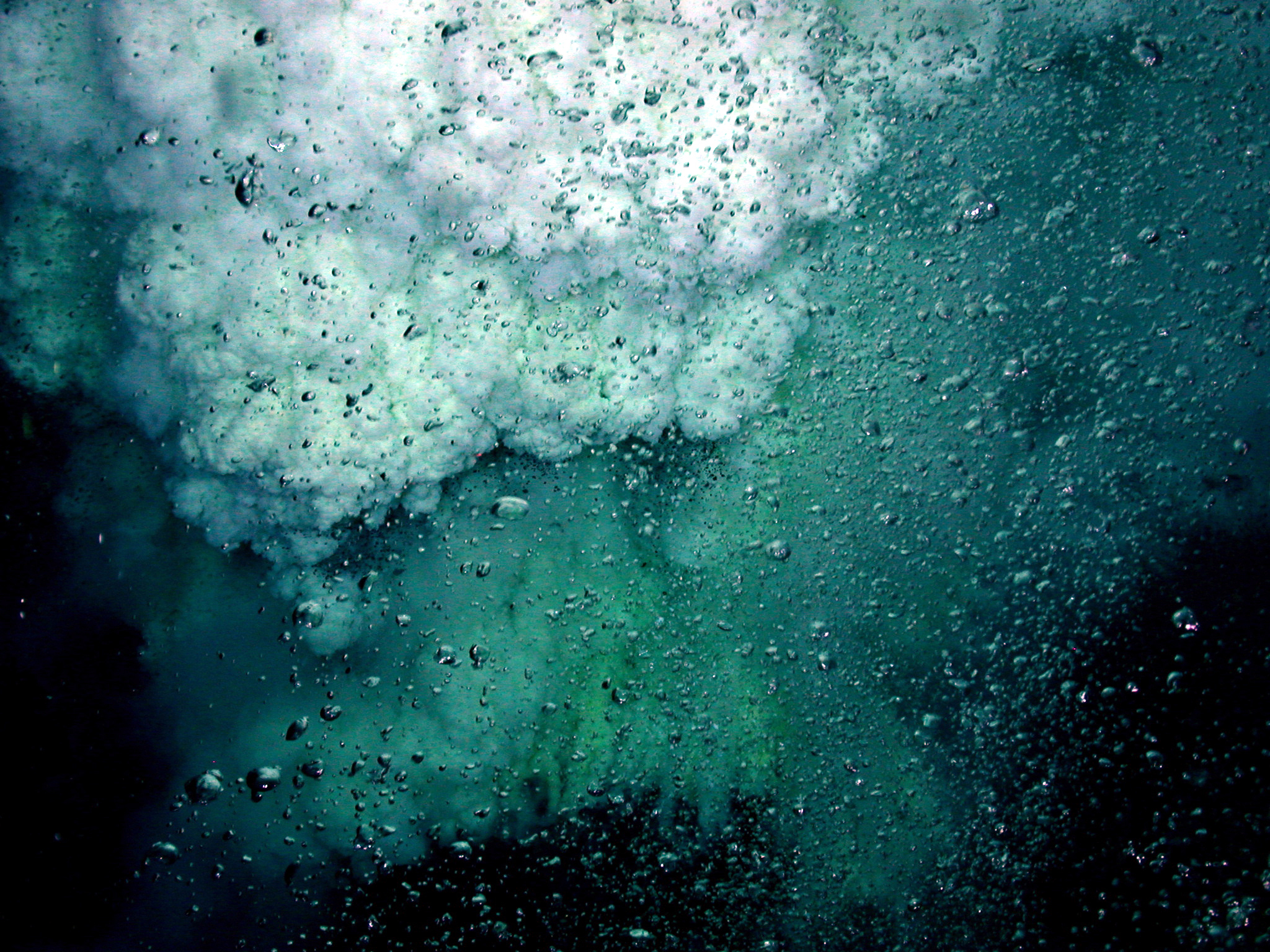 Underwater volcano releasing liquid droplets of carbon dioxide. Yellow parts of the plume contain tiny droplets of molten sulfur.